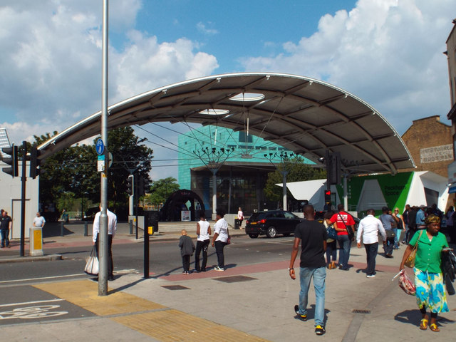 Peckham Arch and Peckham Library across Peckham High Street